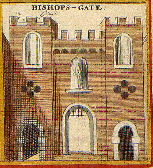 "Bishops-gate", a crop of a 1690 map of London with boxed illustrations of the gates of below plan of city (full map).